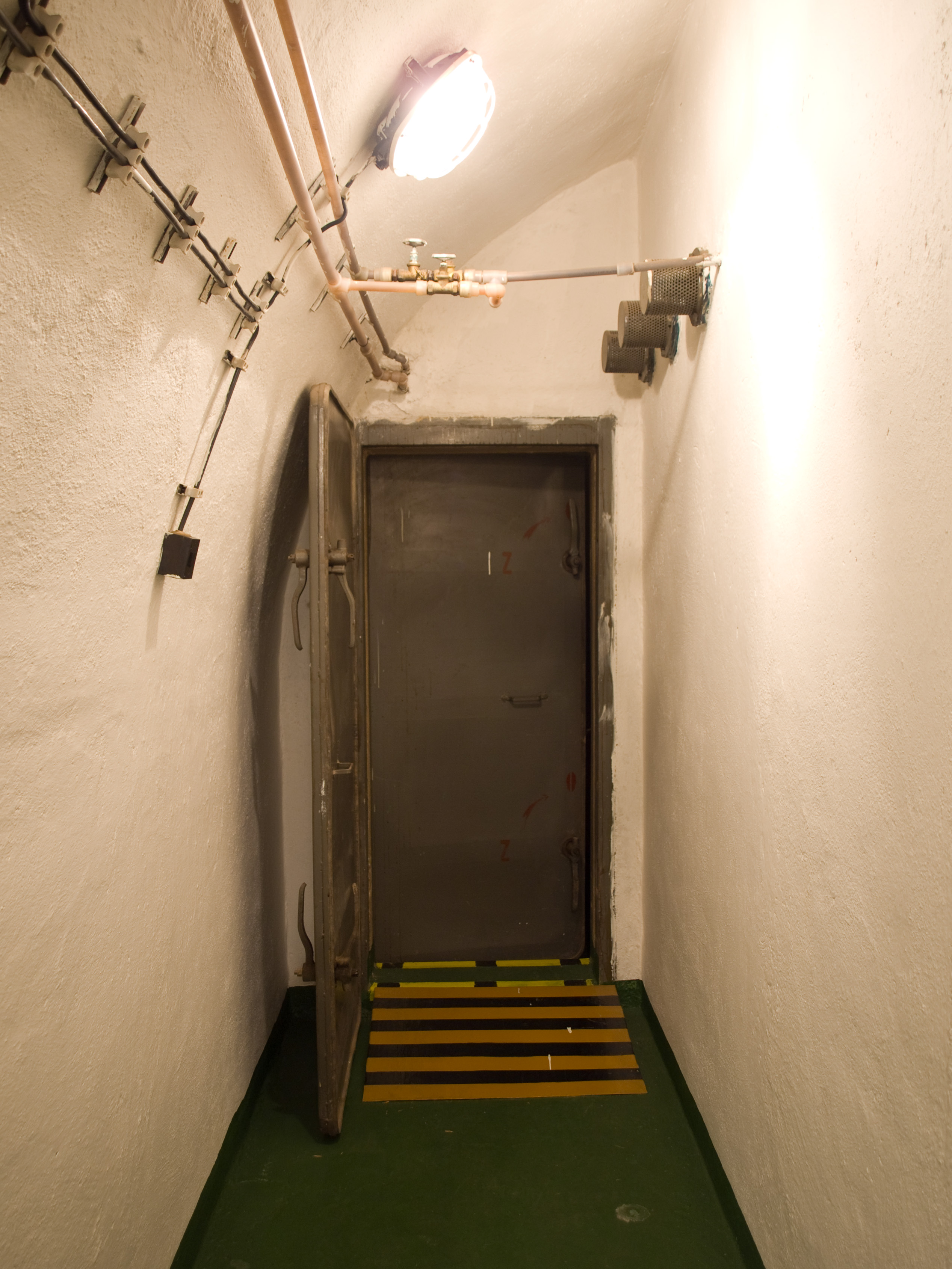 Corridor, fallout shelter Parukářka, Prague